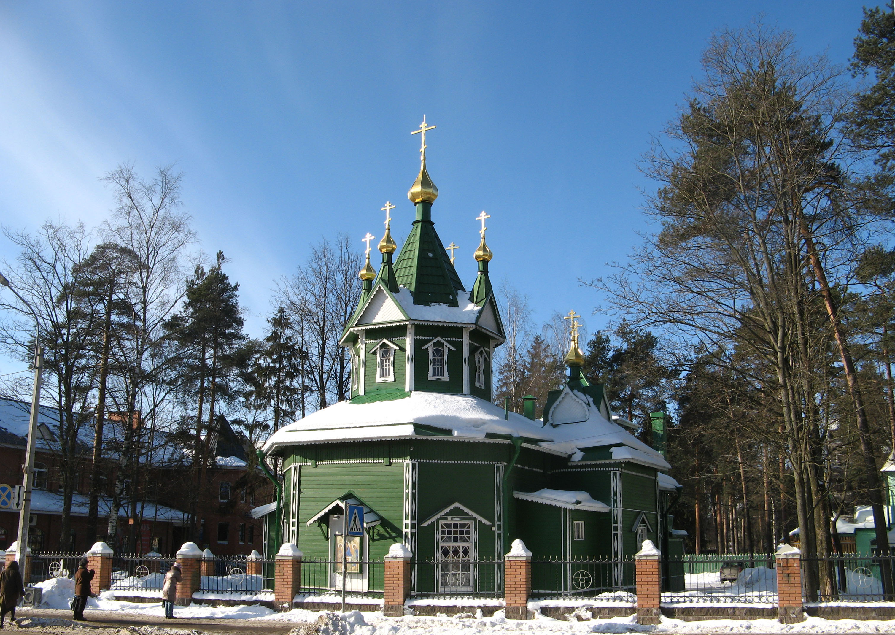 Church of the Holy Trinity, Vsevolozhsk